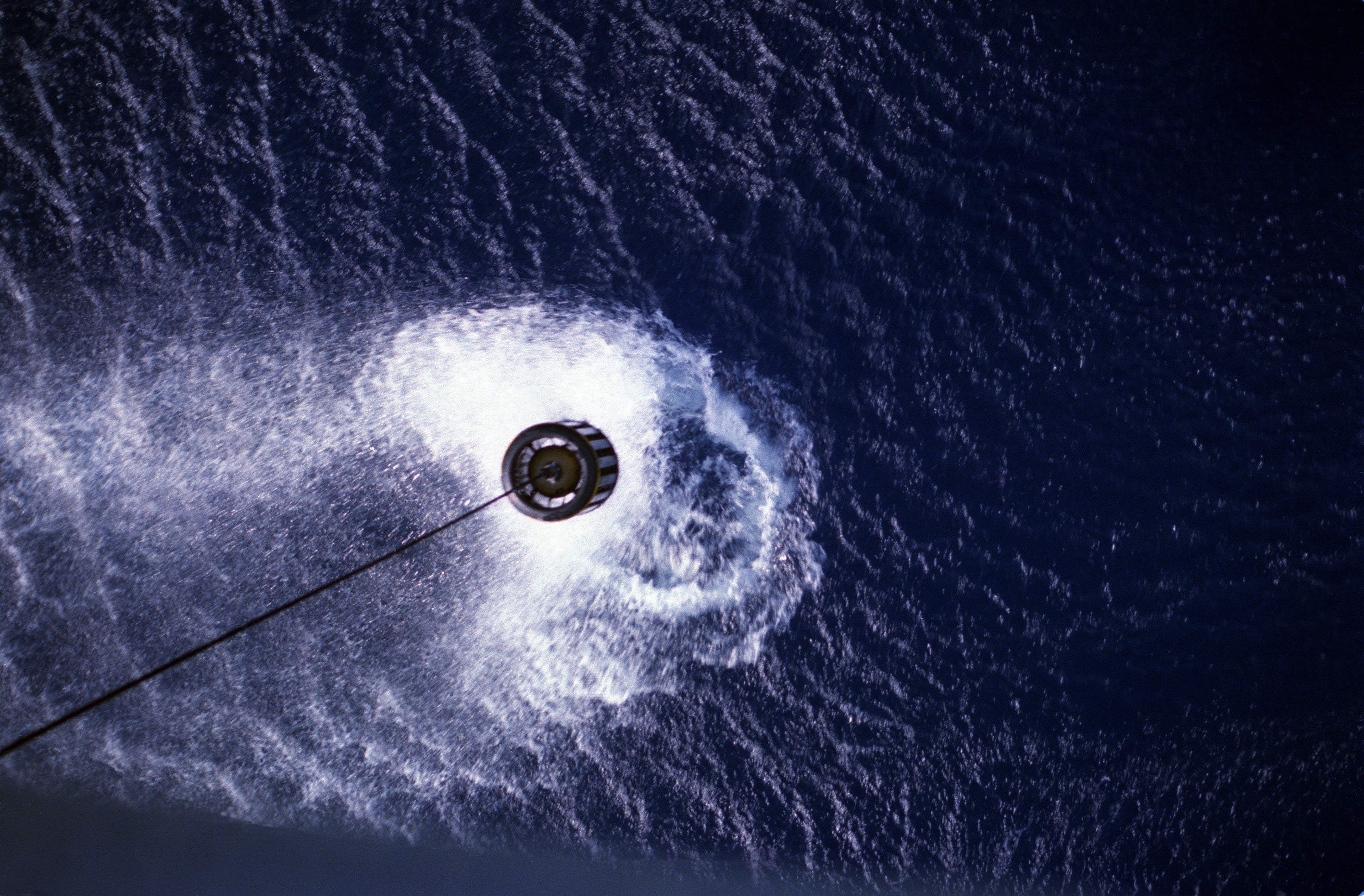 An AQS-13 DIPPING SONAR being lowered from an SH-3H Sea King helicopter from Helicopter Anti-submarine Squadron 2 (HS-2).